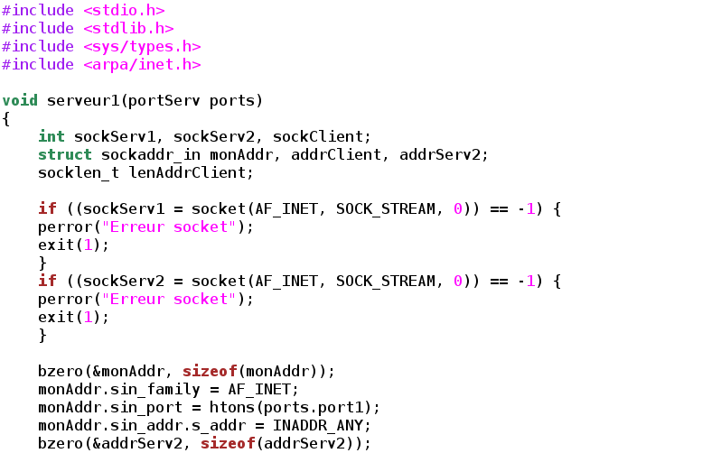 Example of a source code written in C (highlighting of gvim, "kr" style) upon sockets.